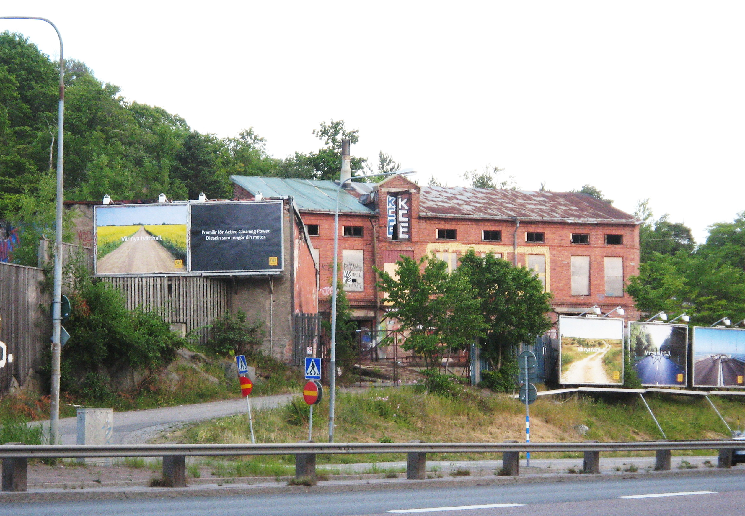 Abandoned factory in Stockholm, Sweden.